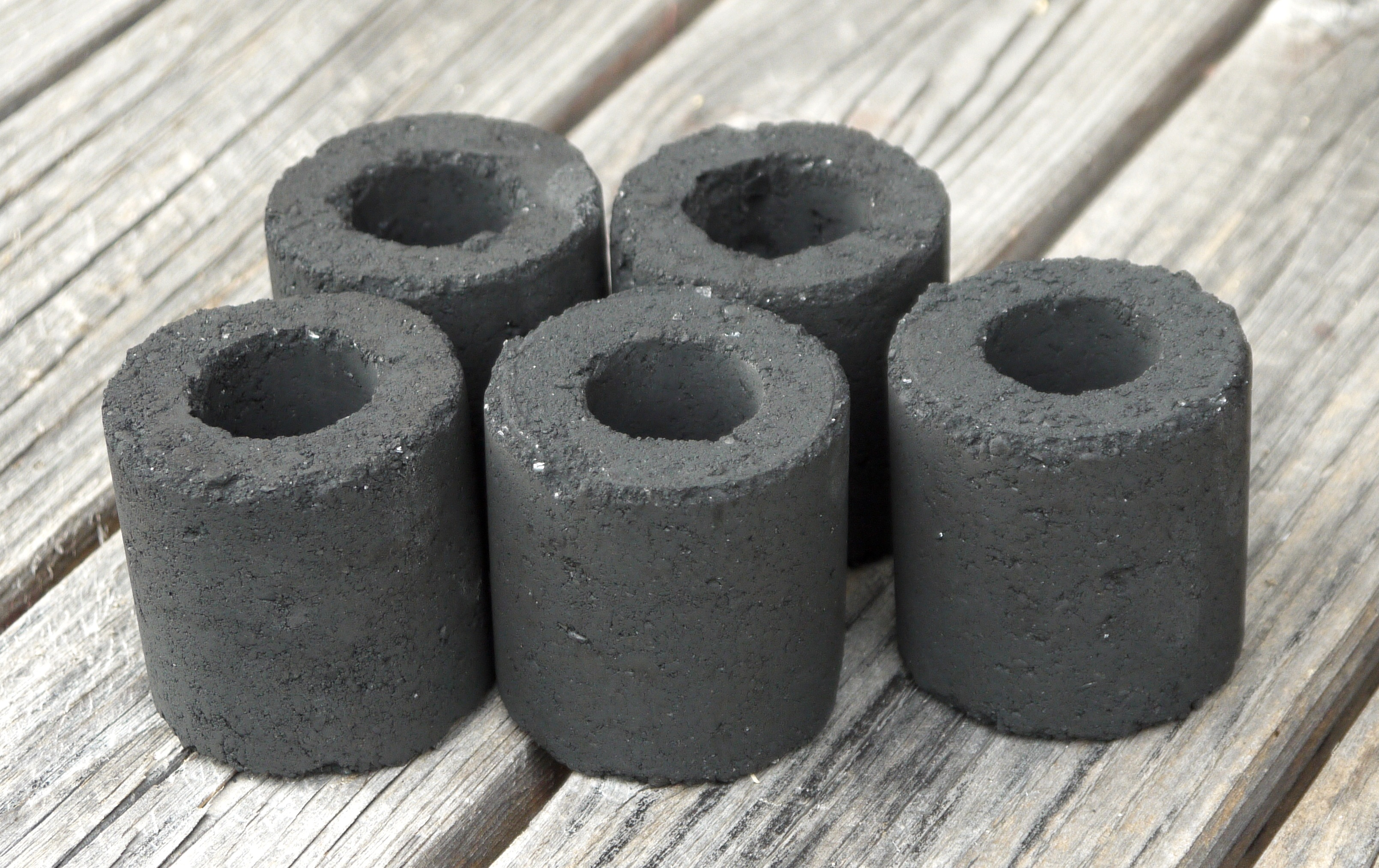 Japanese Foxtail millet 01).